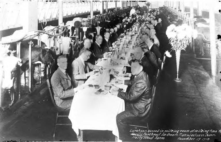 PH Coll 513.237